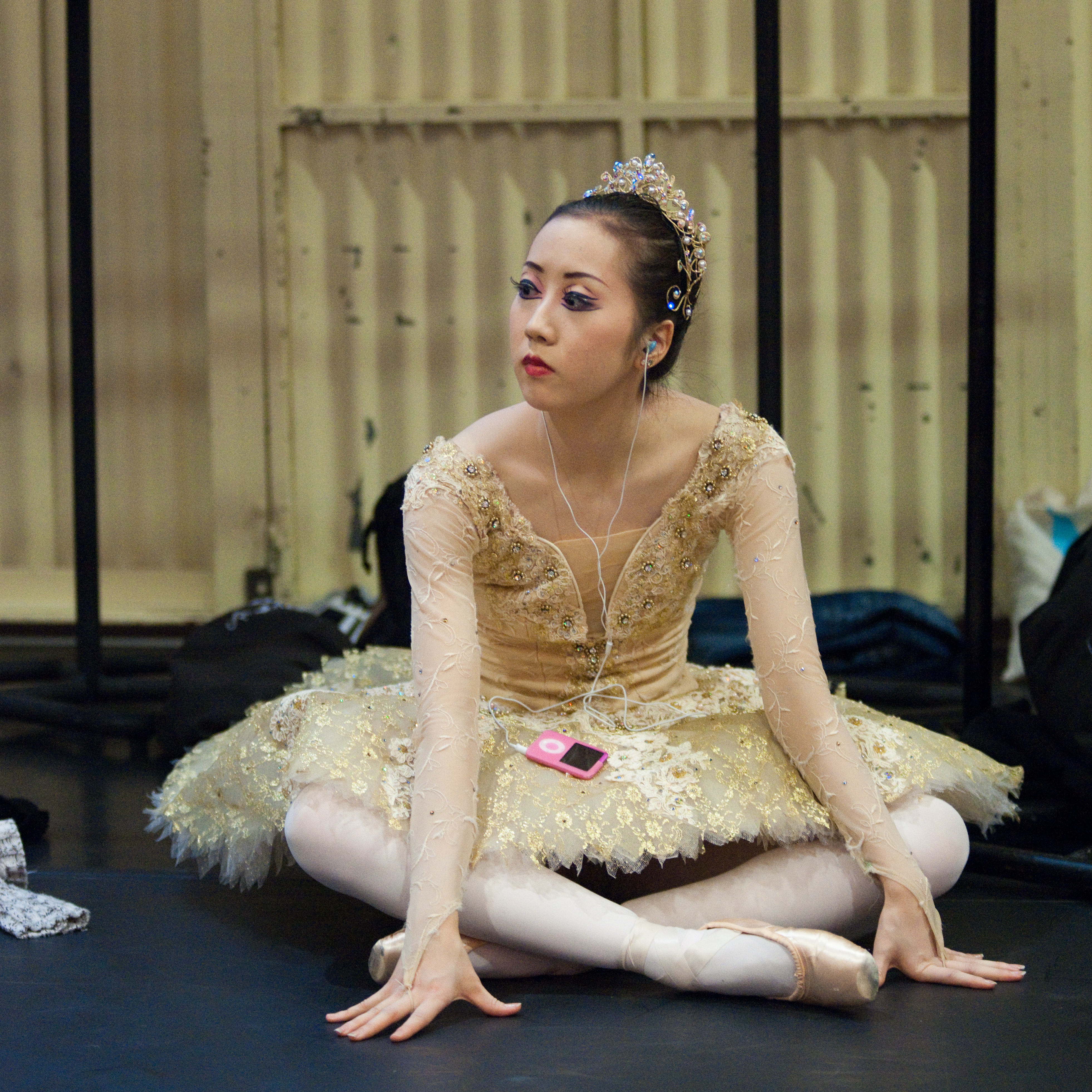 The making of this document was supported by Wikimedia CH. (Submit your project!) For all the files concerned, please see the category Supported by Wikimedia CH.